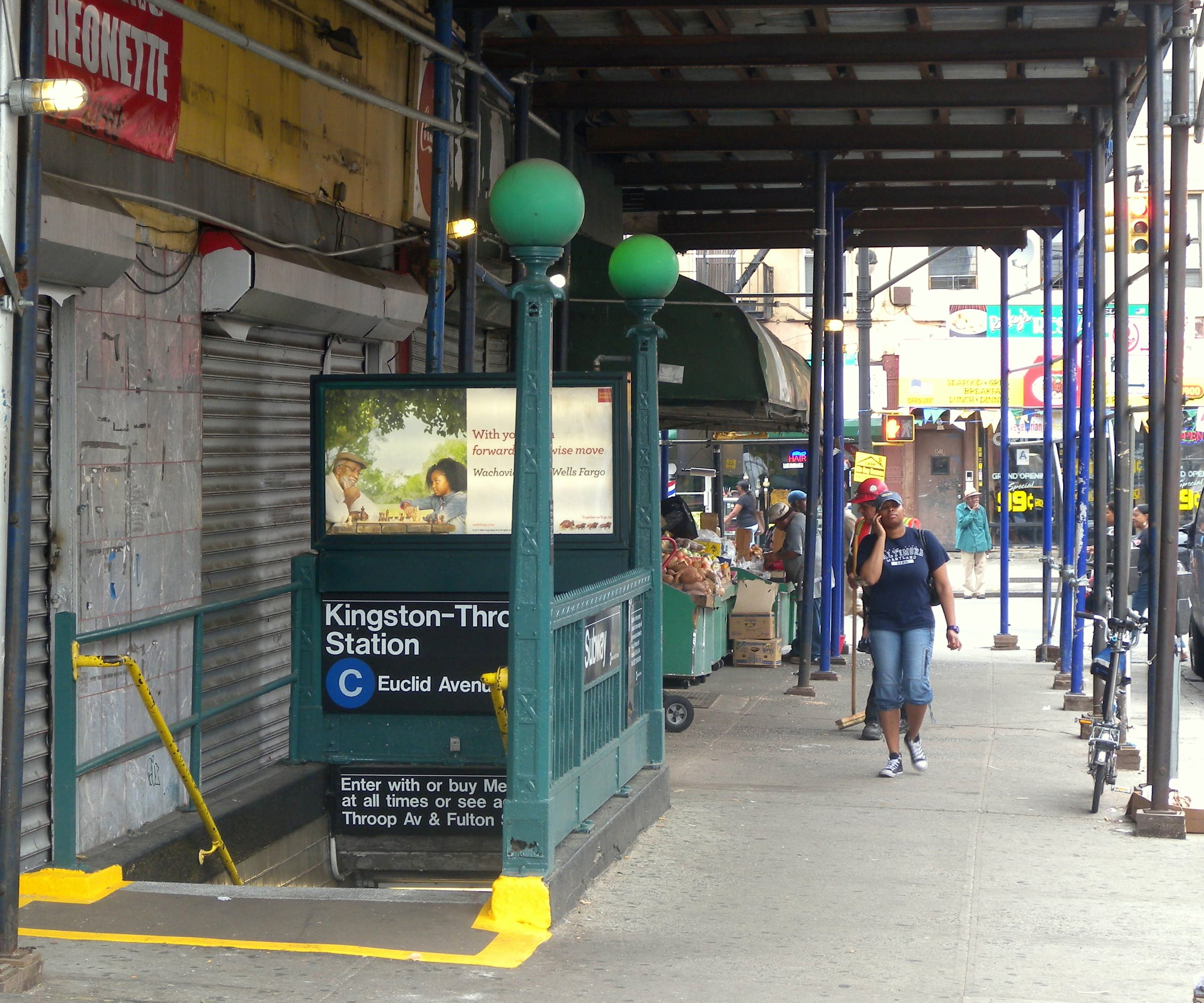 Looking north along Kingston Avenue at eastbound stair of subway on a cloudy midday.